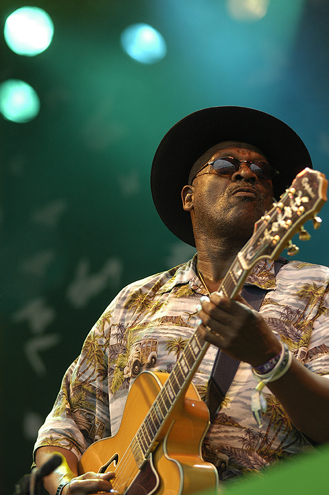 Taj Mahal (Glastonbury 2005) What a smoking picture!